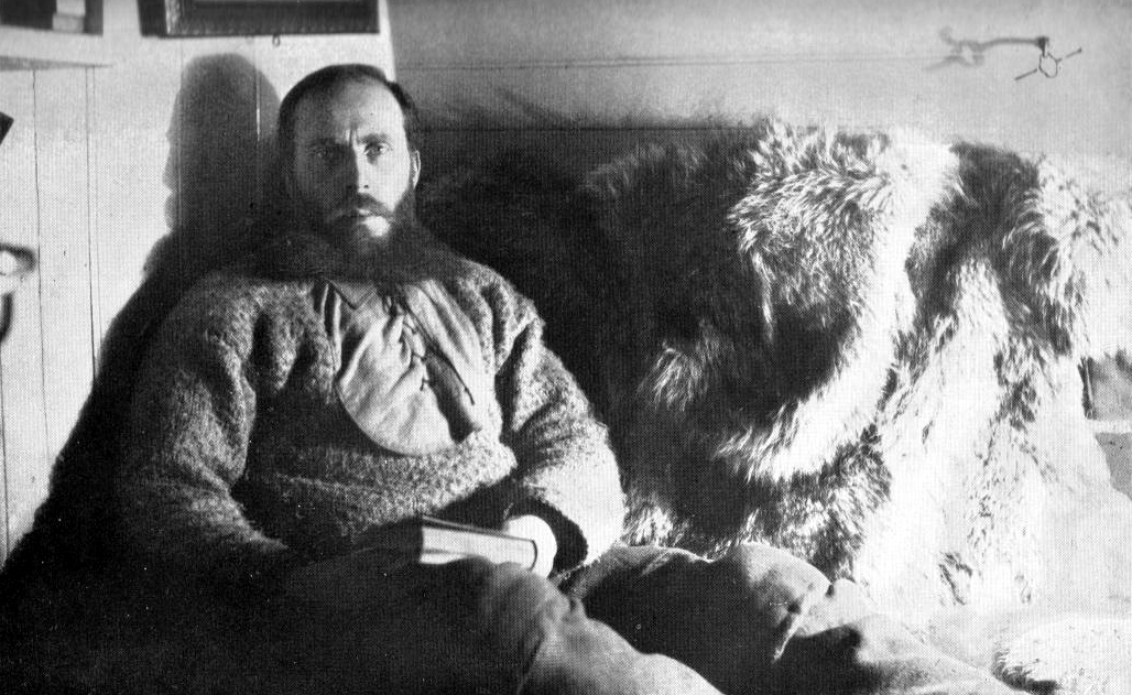 Photography of Otto Sverdrup on the first journey of Fram. Used as illustration for the book Fridtjof Nansens Fram over Polhavet : den norske polarfærd 1893-1896.